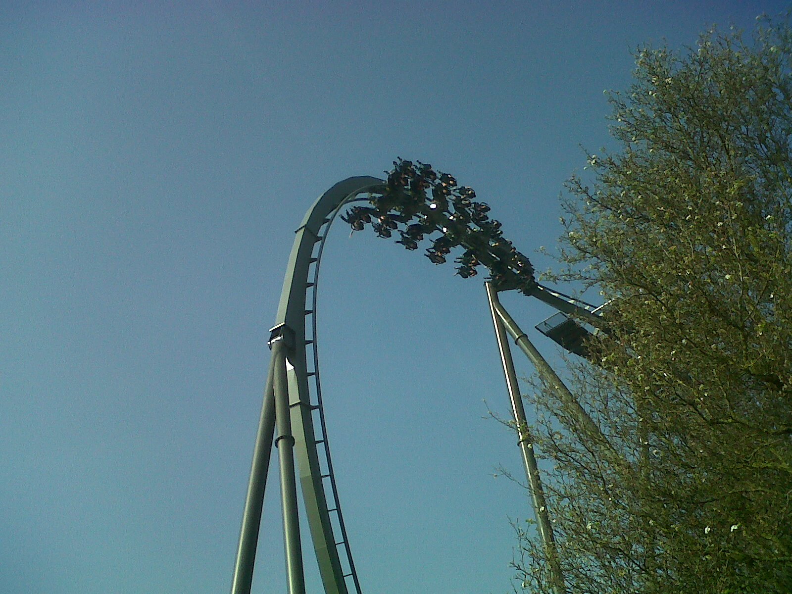 view of The Swarm drop at Thorpe Park, Surrey, England